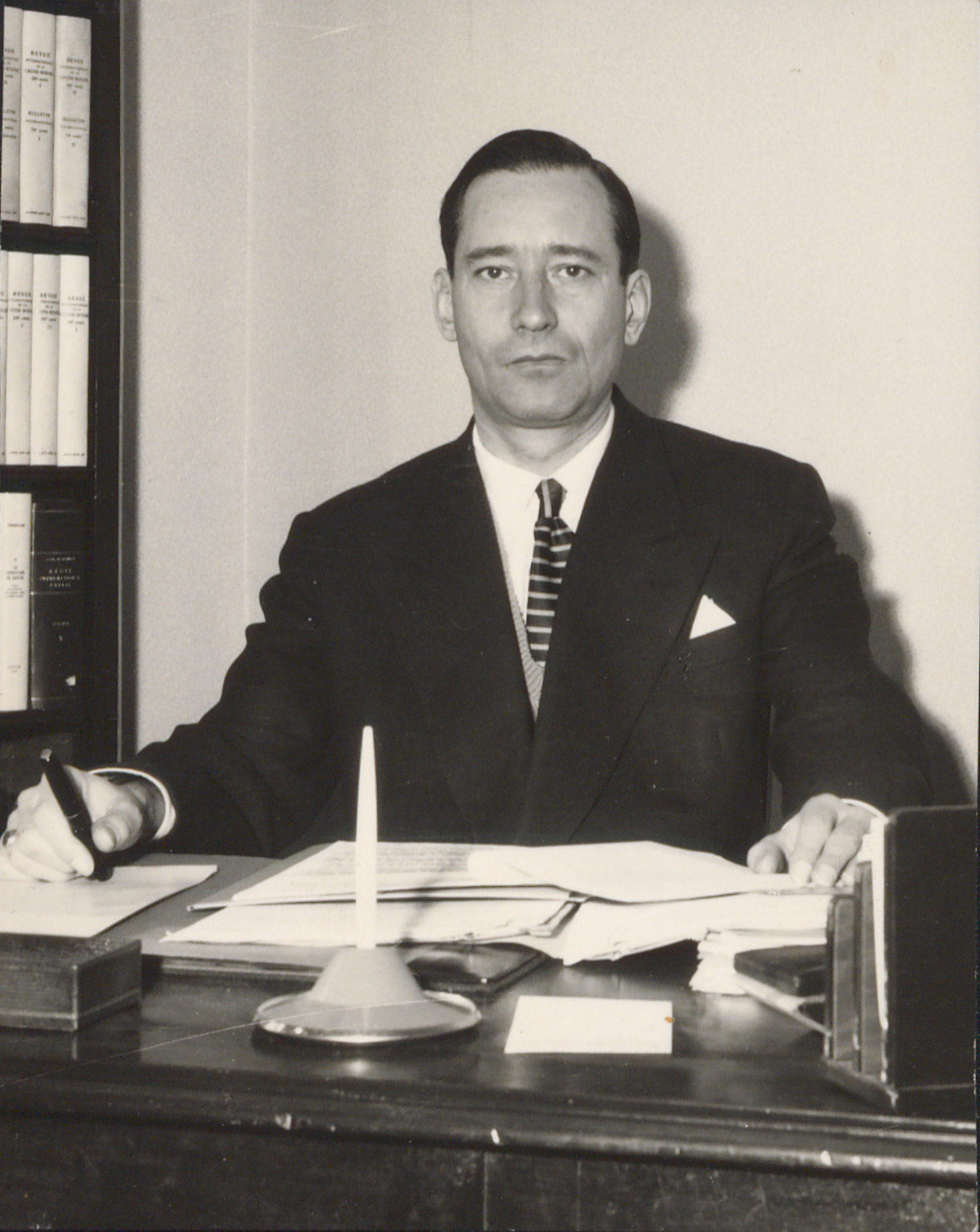 Swiss jurist Jean Simon Pictet (1914-2002) at the Geneva headquarters of the International Committee of the Red Cross (ICRC) in 1937. As an expert in International Humanitarian Law (IHL) he became a senior executive and later Vice-President of the ICRC. Pictet was instrumental in drafting the 1949 Geneva Conventions for the protection of victims of war and later taught law at the University of Geneva.